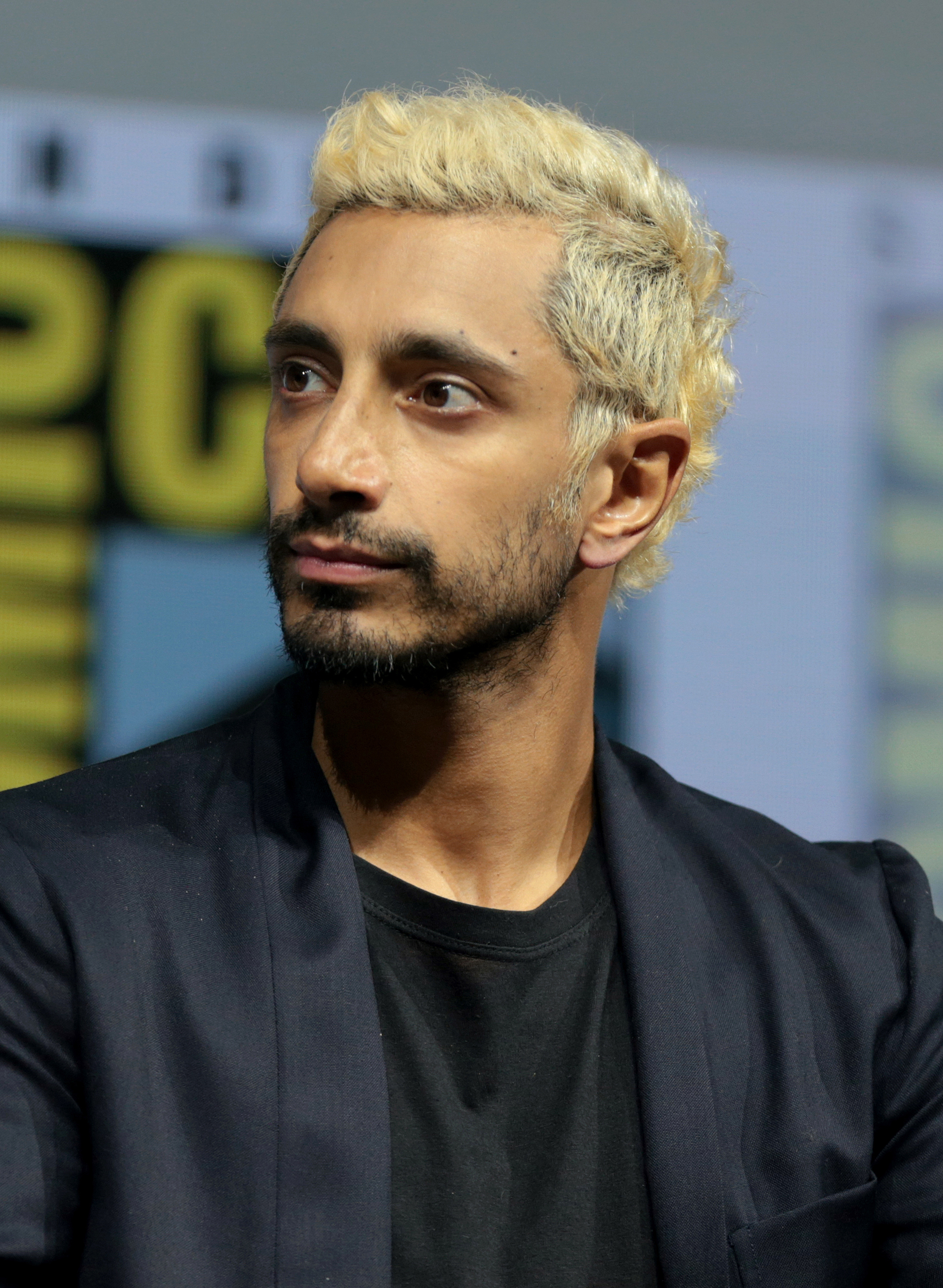 Riz Ahmed speaking at the 2018 San Diego Comic-Con International in San Diego, California.